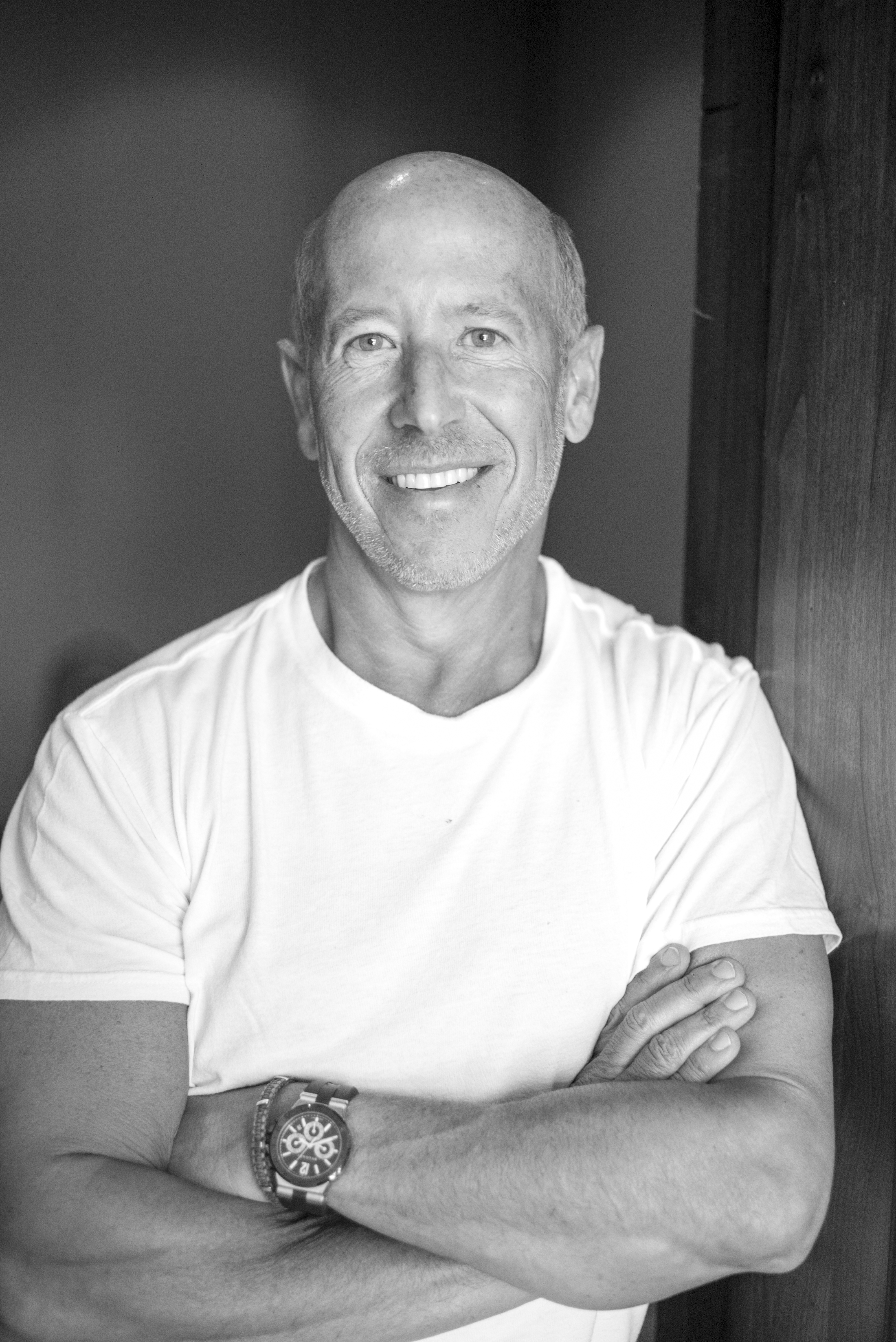 Barry sternlicht in 2016 by Christopher Michel